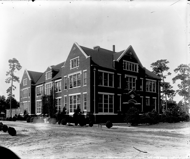 Benton Hall, now demolished, at the University of Florida. The building was demolished in 1966.